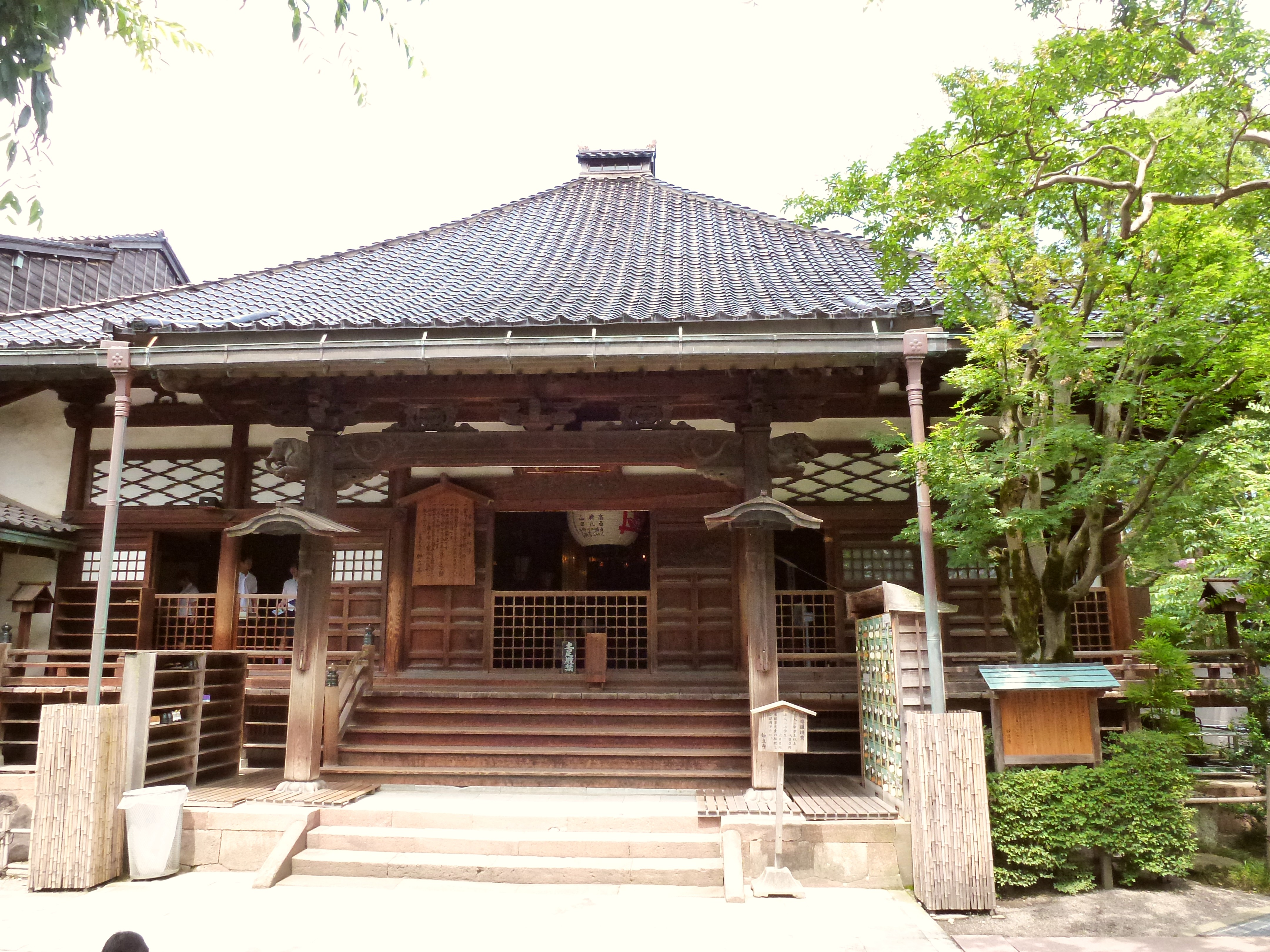 Myoryuji Temple, commonly known as Ninja-dera, in Kanazawa, Japan